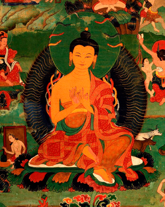 Nagarjuna with Thirty of the Eighty-four Mahasiddhas (cropped)